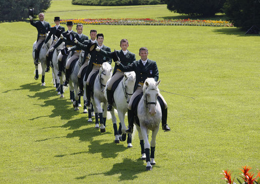 Riders guide Lipizzaner stallions through their paces during an exhibition attended by President George W. Bush and Laura Bush, Tuesday, June 10, 2008, at Brdo Castle in Kranj, Slovenia.